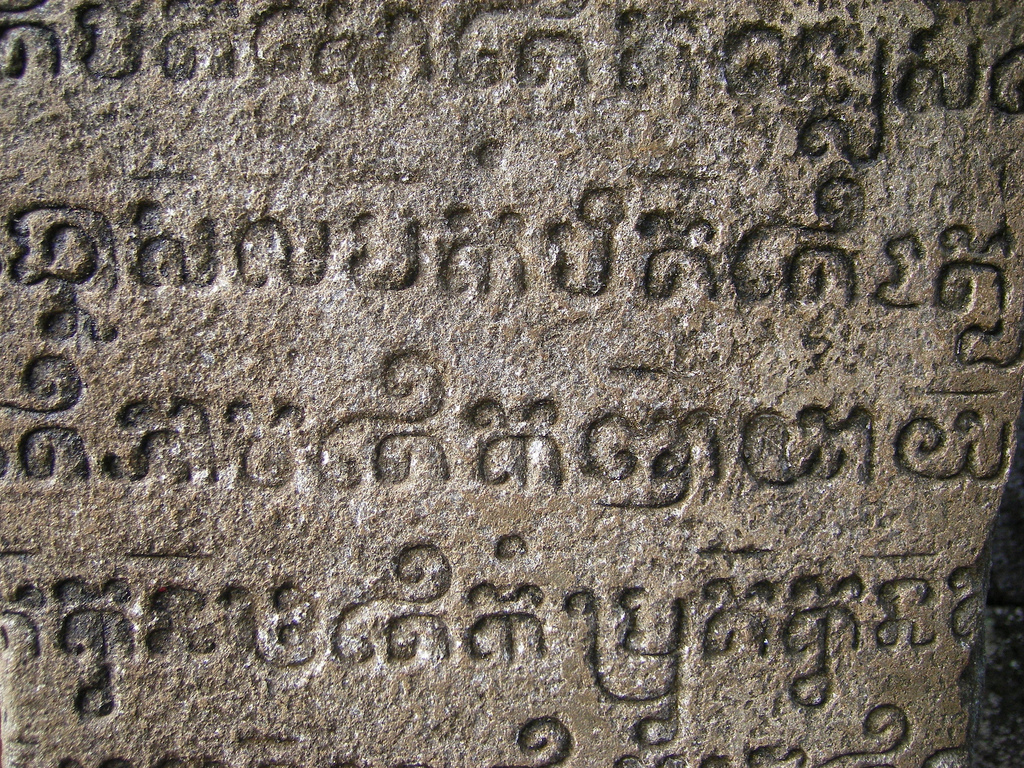 Script from the ruins of Koh Ker, Cambodia. This site served as the temporary capital city of the Khmer Empire between 928 to 944 BC under king Jayavarman IV.